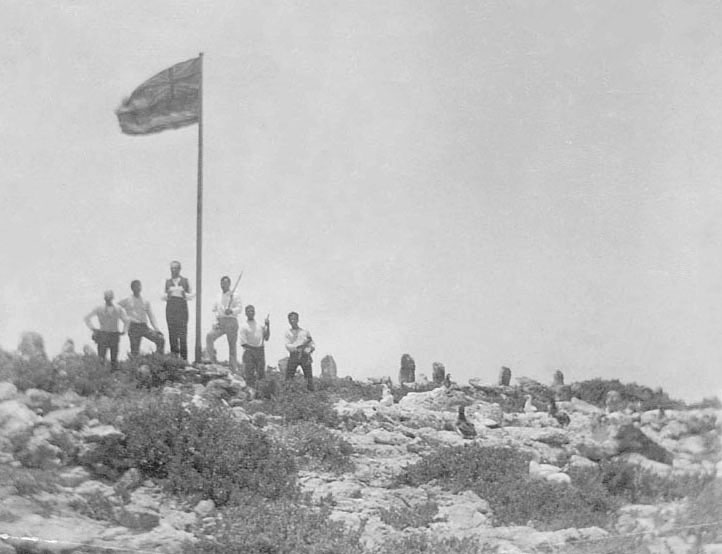 Ceremony to annex Mokumanamana (Necker Island) for the Provisional Government of Hawaii. This ceremony took place atop what was later called "Annexation Hill" the highest point on Mokumanamana.